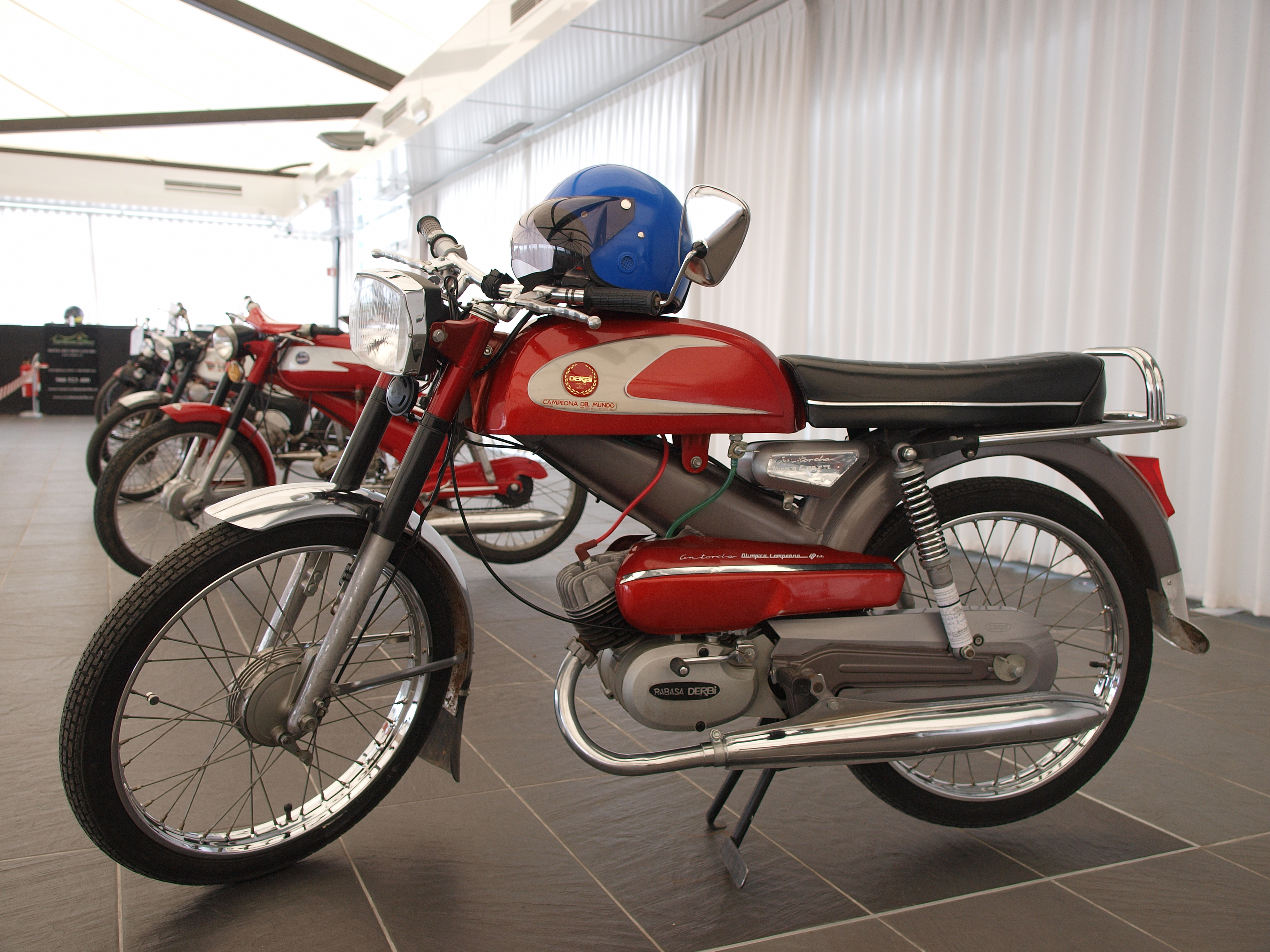 Derbi Antorcha Campeona (Champion) moped